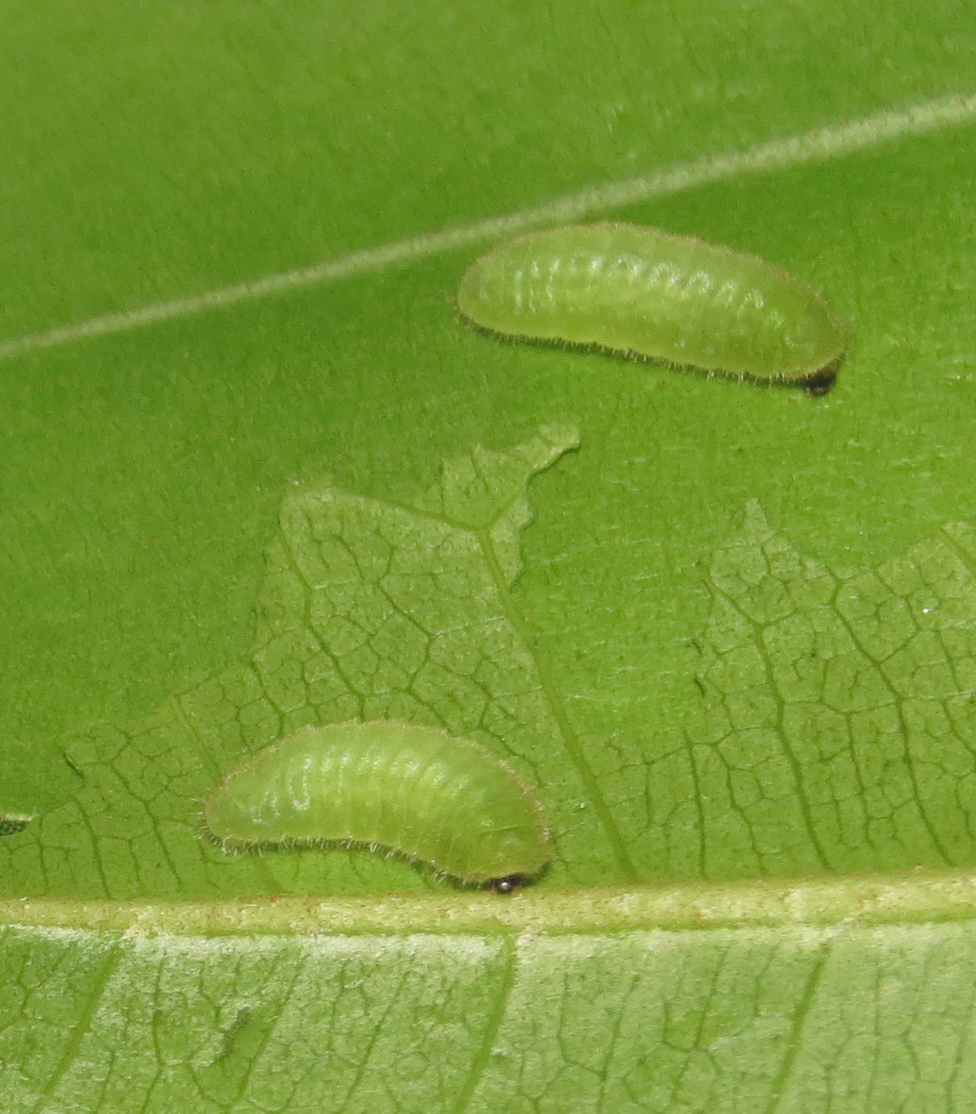 Neopithecops zalmora - Common Quaker caterpillar